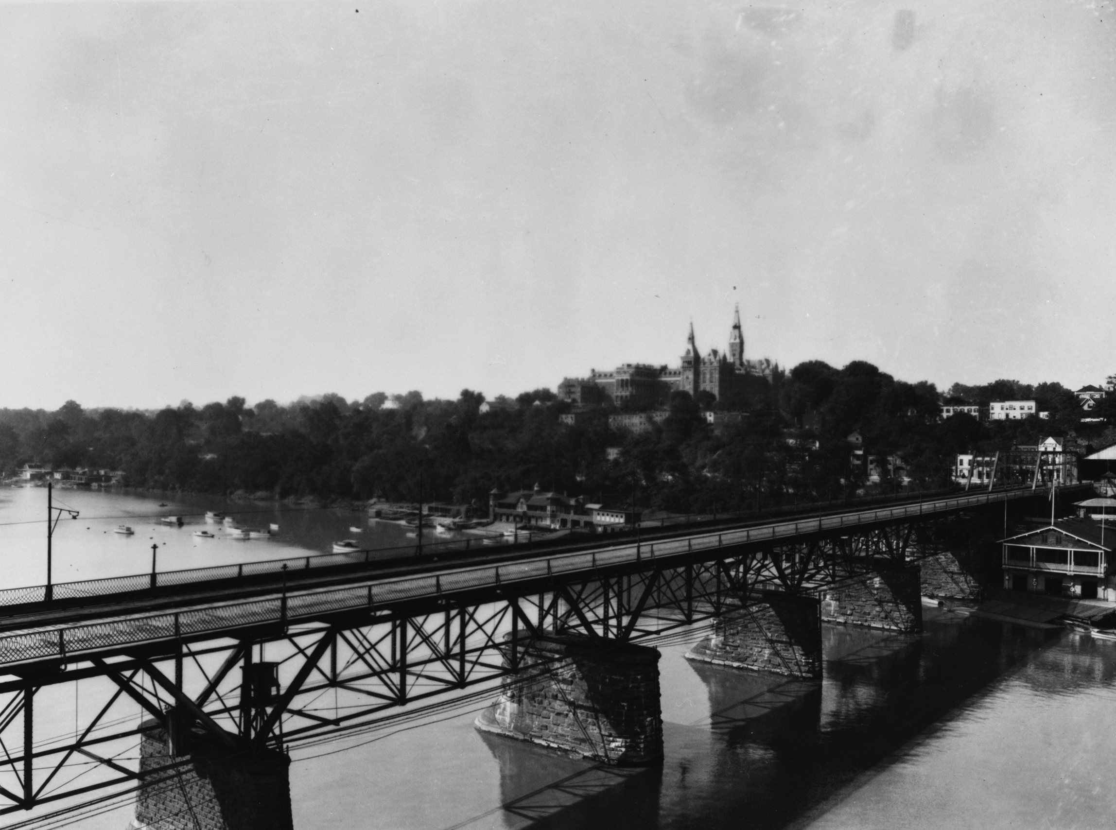 Looking northwest at the Aqueduct Bridge crossing the Potomac River in Washington, D.C., in the United States. This photograph was taken some time between 1924 and 1933, after the bridge had closed and been replaced by Key Bridge. The spires of buildings at Georgetown University can be seen in the background.